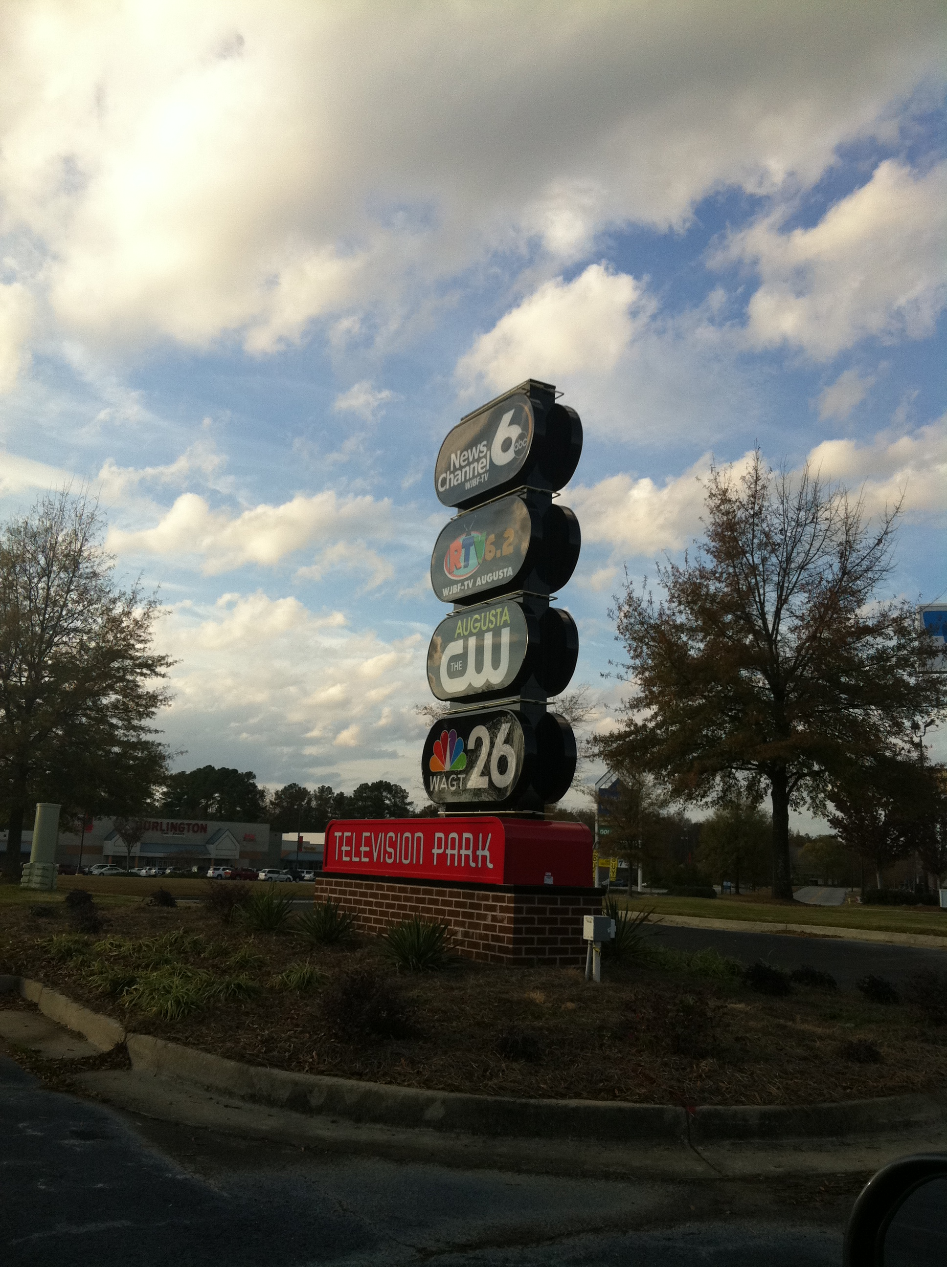 WJBF Television Park studio sign in Augusta, Georgia